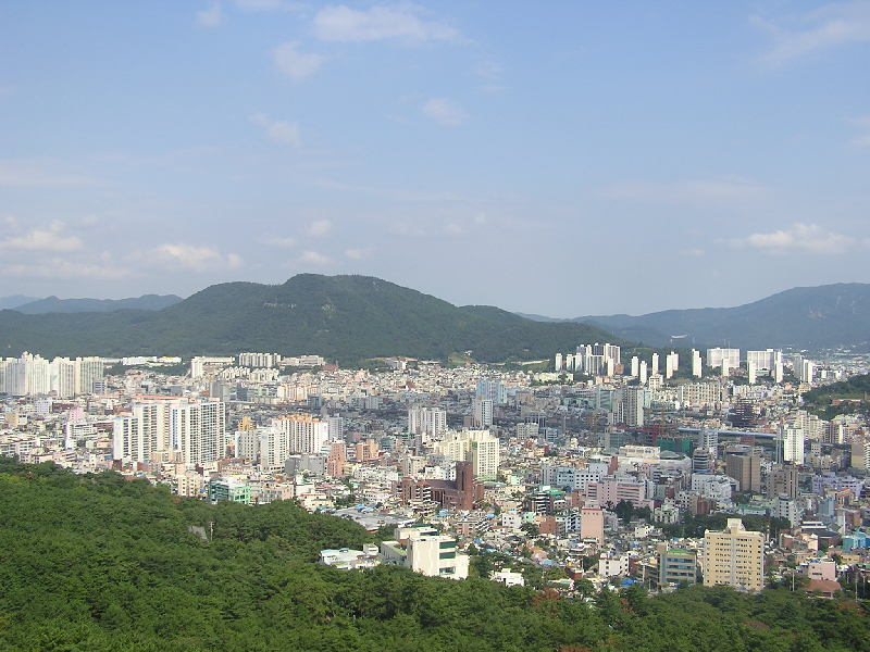 View of Busan, South Korea